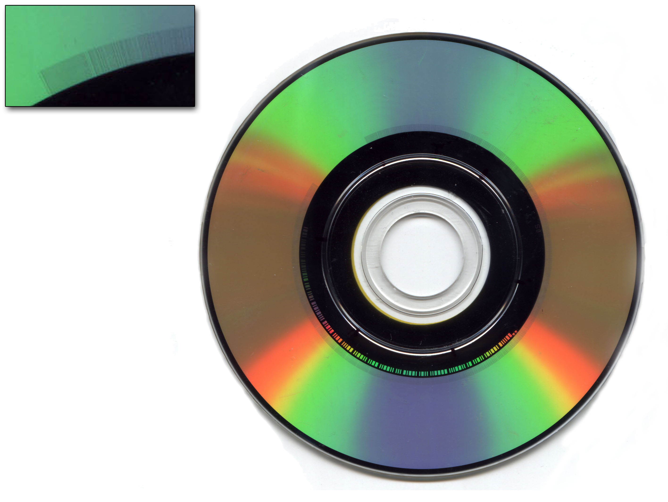 Own picture, taken and made by self.